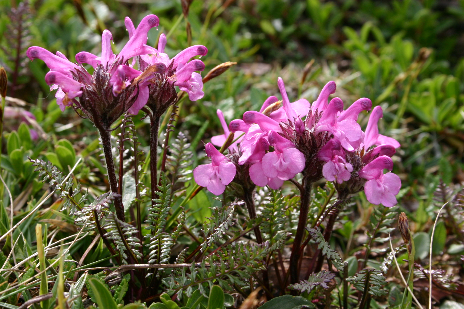 Pedicularis rosea